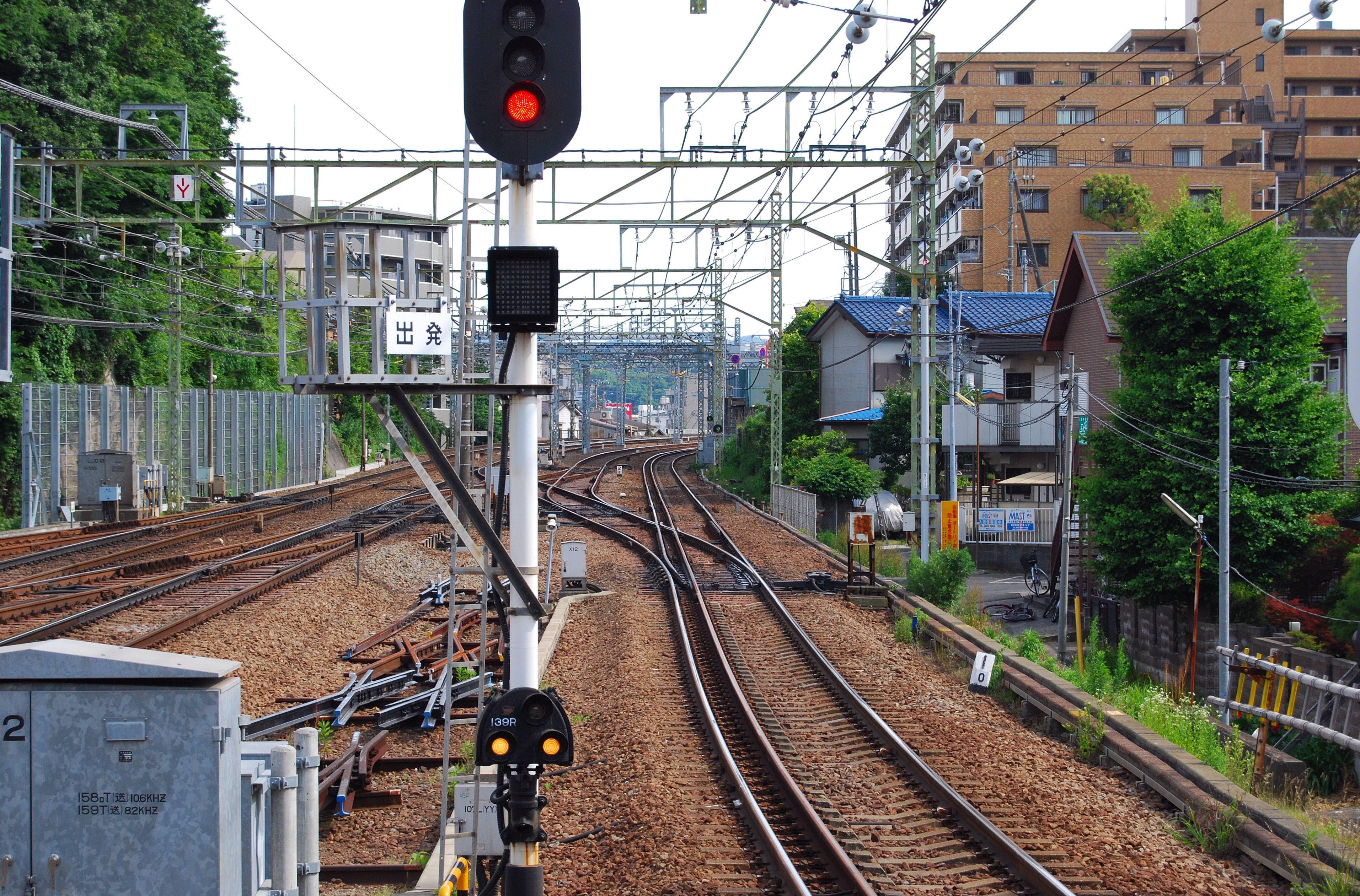 The view from the north end of the platforms at Kanazawa-hakkei Station on the Keikyu Main Line, with the dual-gauge track from the J-TREC factory to Jimmuji Station